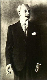 Portrait of the Greek Prime Minister M. Korizis overcome by his nation's defeat by Germany, he committed suicide on 18 April 1941.